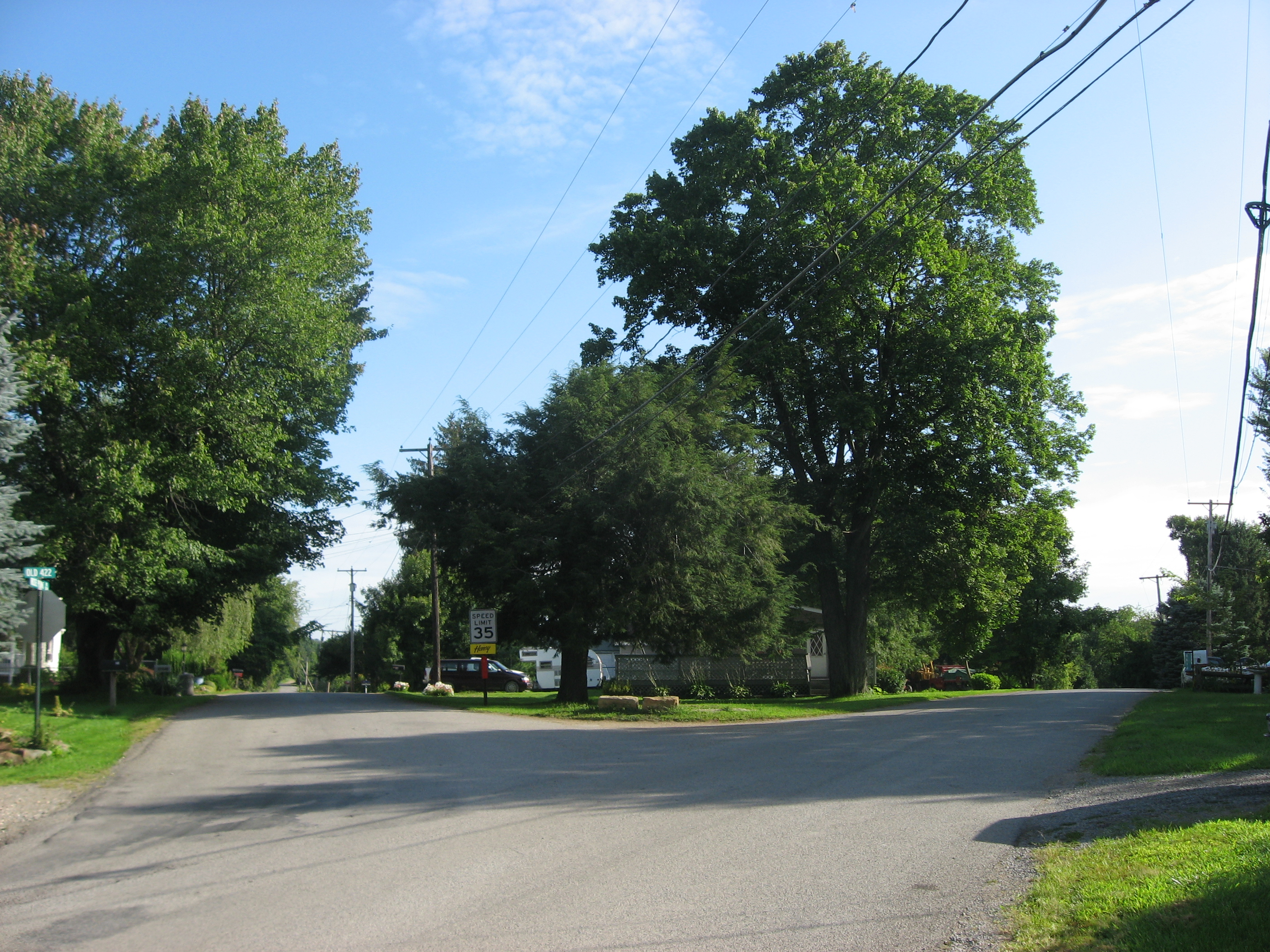 Intersection of Rose Point Road and Old 422 (the actual Rose Point) in Rose Point, Pennsylvania, United States.